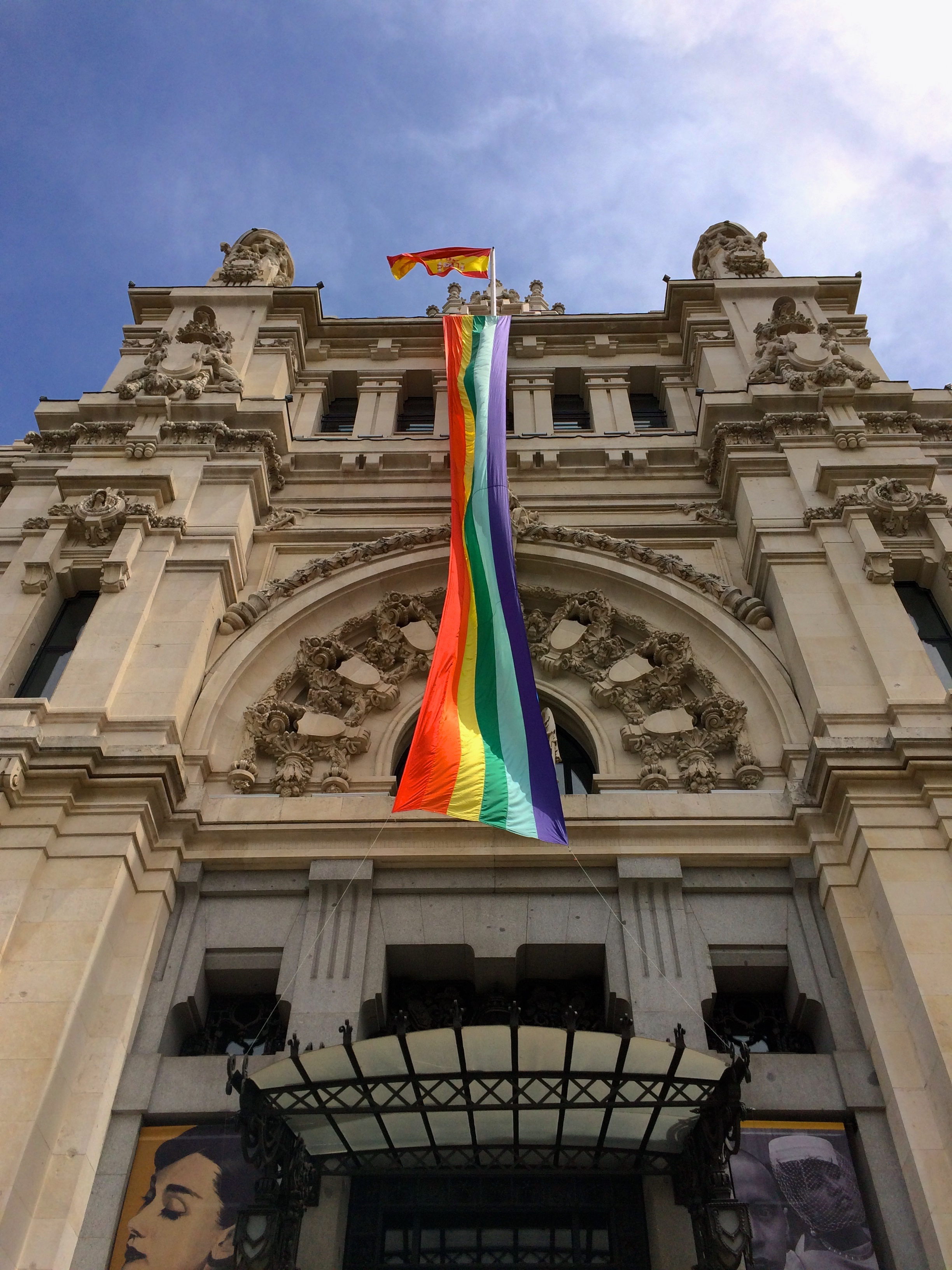 2015.07.10 The Power of Flags 2015.07.04 Madrid Pride Orgullo 2015